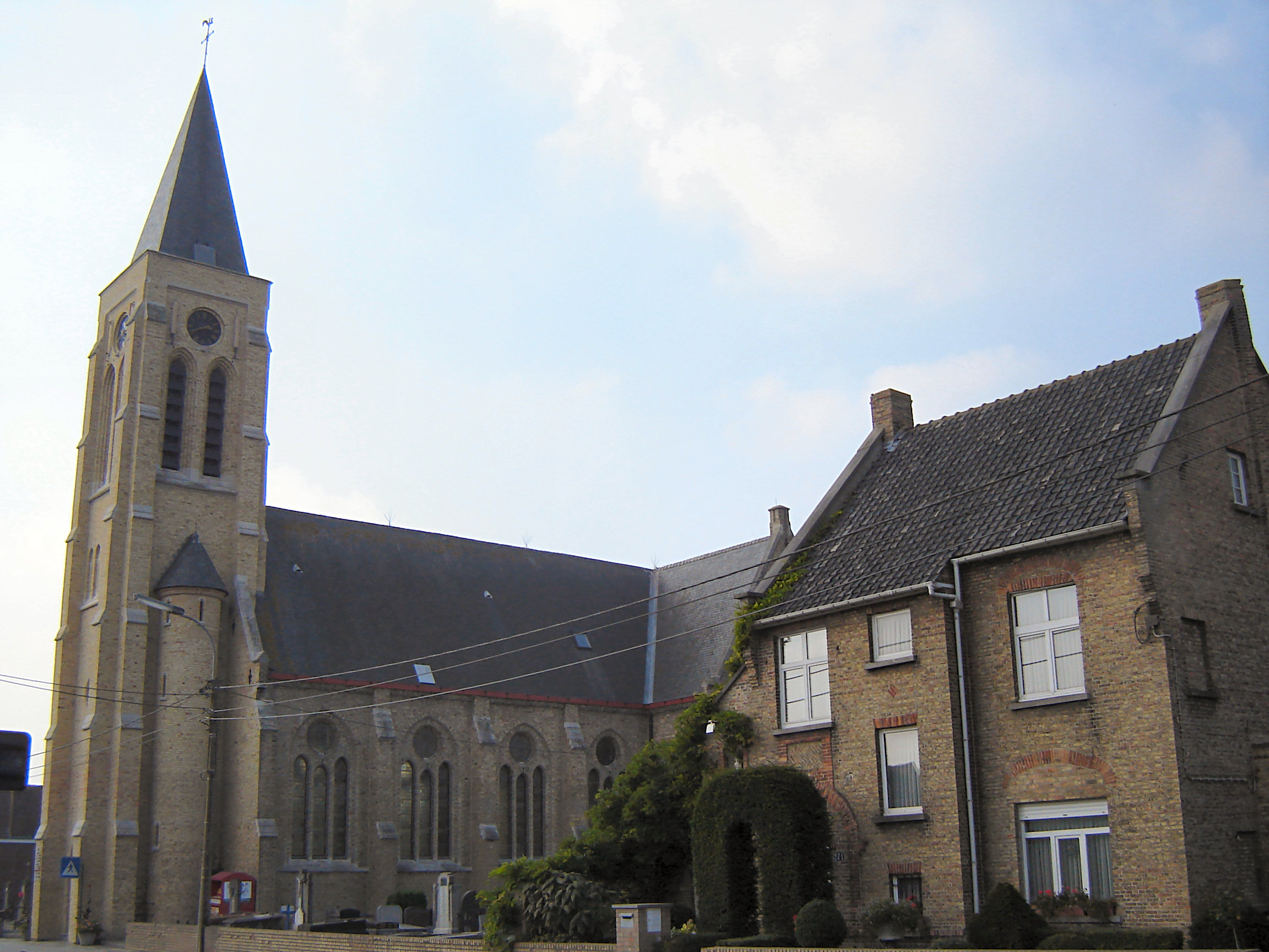 Church of Saint John Baptist and rectory in the town center of Sint-Jan. Sint-Jan, Ieper, West Flanders, Belgium